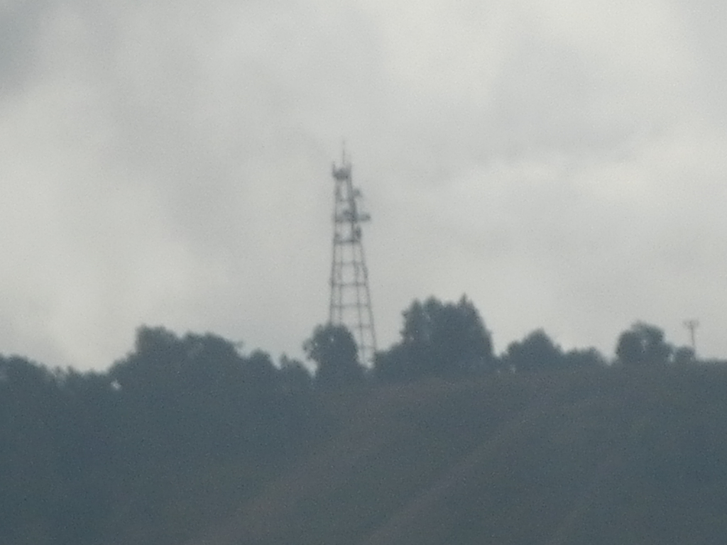 Krasnyi Klyuch TV tower.